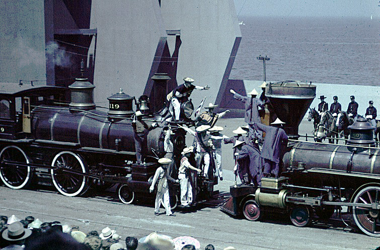 Chicago Railroad Fair. 1949 A reinactment of the Golden Spike ceremony at Chicago's Railroad Fair.